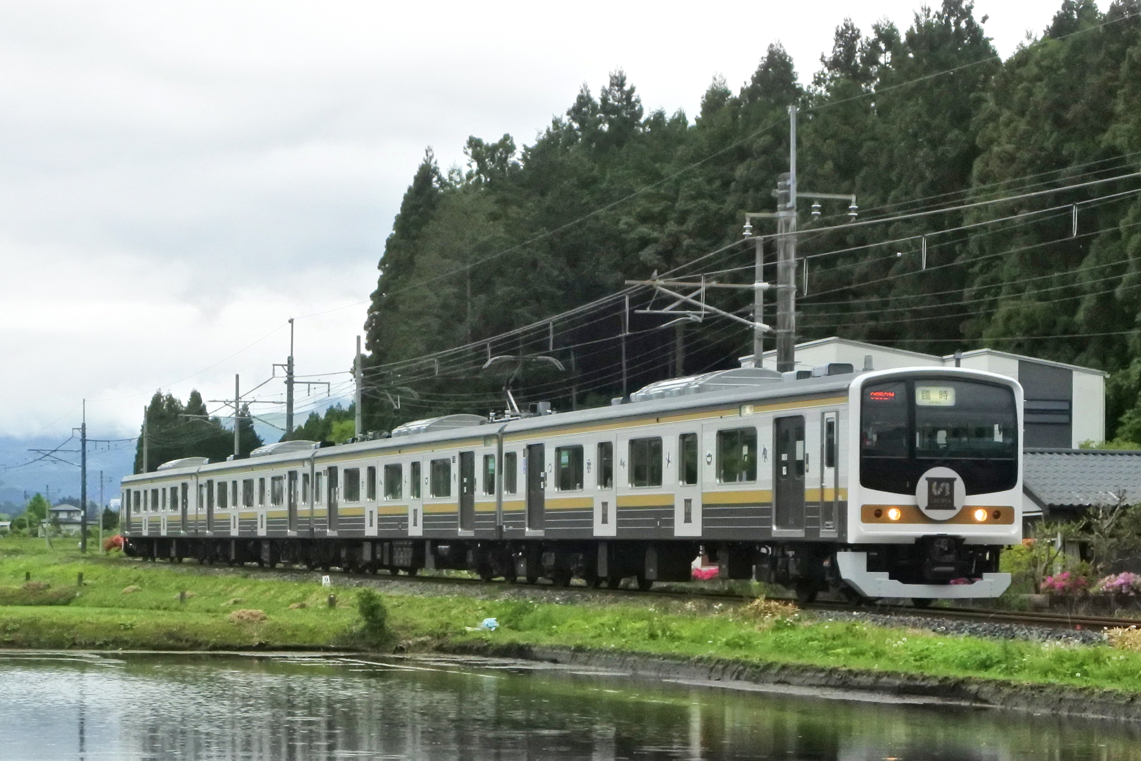 East Japan Railway Company (JR East) 205 Series Yama Y3 set "Iroha" photographed between Nikko Station and Imaichi Station on Nikko Line in Tochigi Prefecture, Japan.